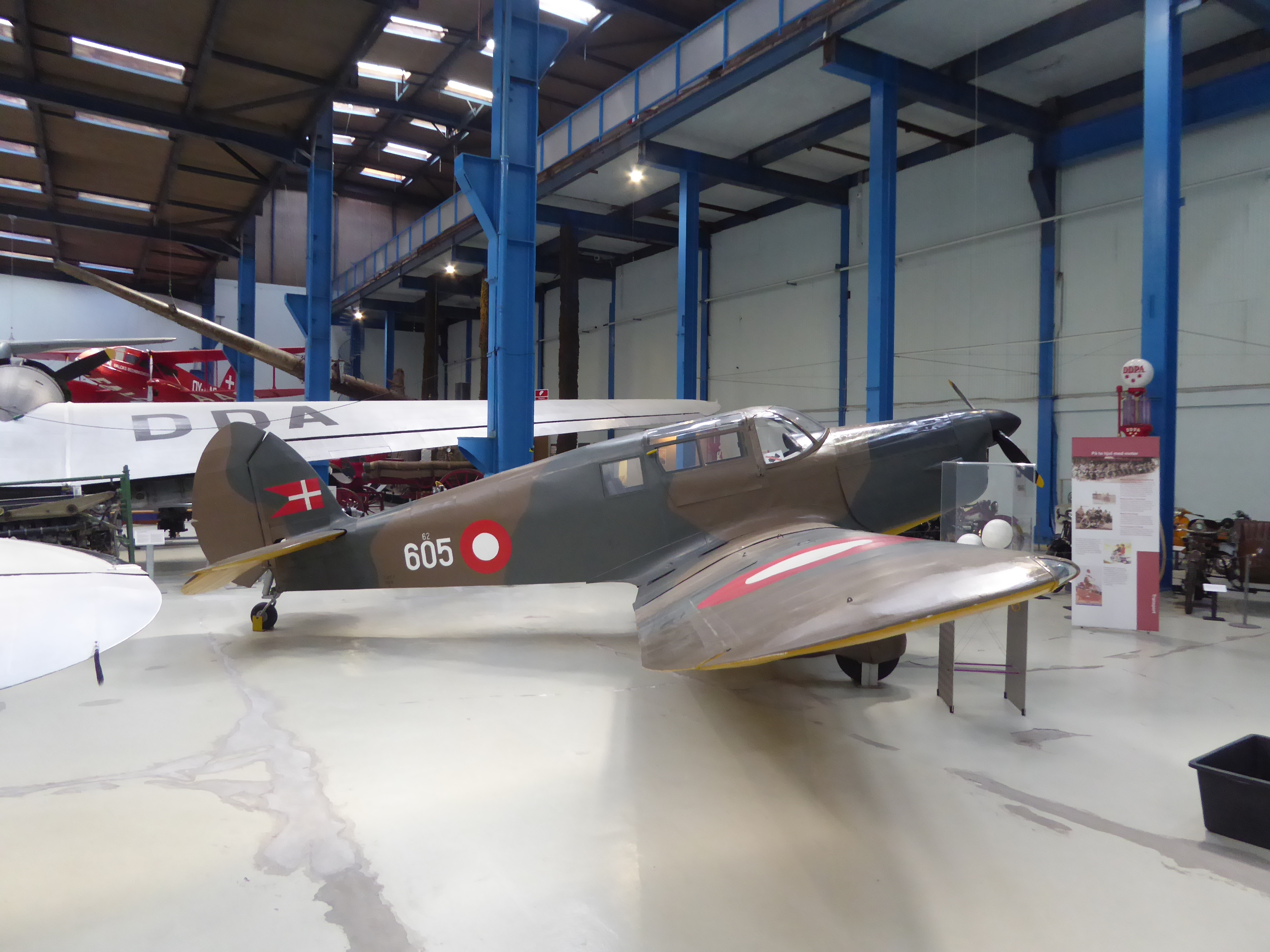 The military airplane 605 (62-605) from 1946 in Danmarks Tekniske Museum in Helsingør in Denmark. It is a Percival P.34 Proctor.